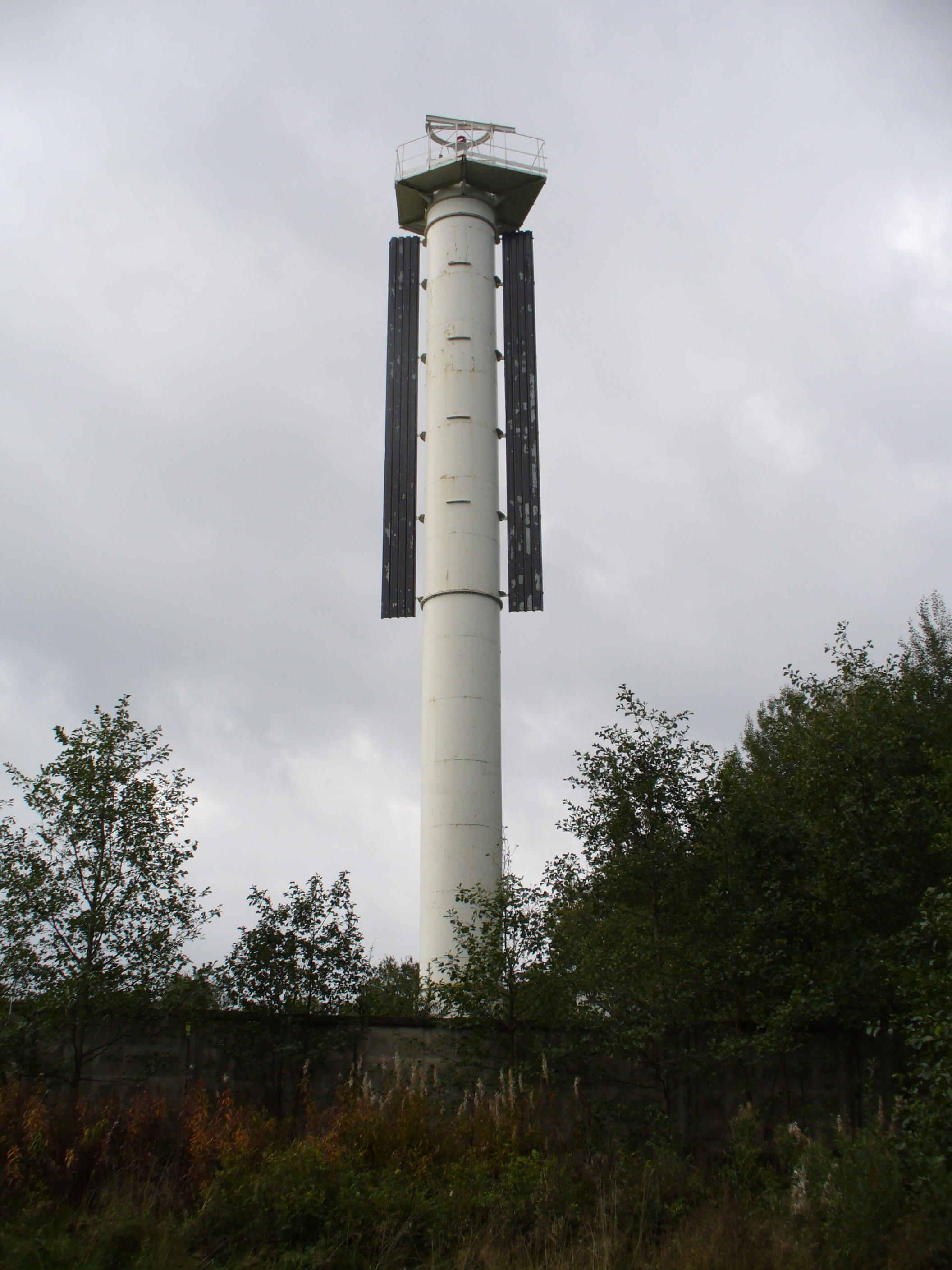 Lower lighthouse of Kallavere (Kallavere liitsihi alumine tuletorn in Estonian). Kallavere village, Jõelähtme parish, Harju county, Estonia.